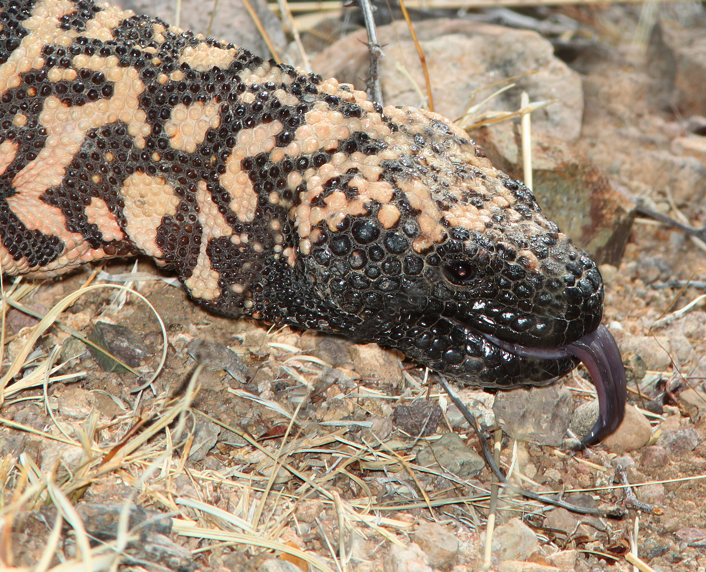 LIZARDS, SNAKES, FROGS, etc